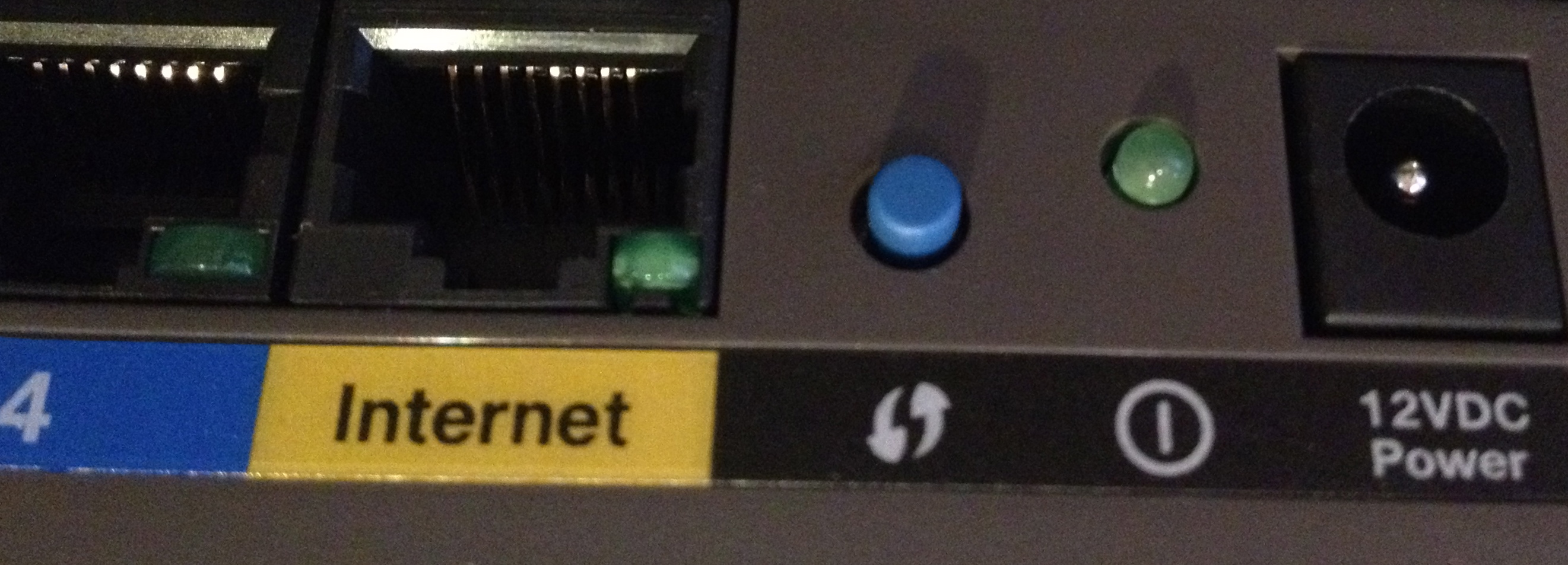 The Wi-Fi Protected Setup button (center, blue) on a Cisco E2500 wireless router, The WPS feature was shown in 2011 to break security of Wi-Fi encryption.